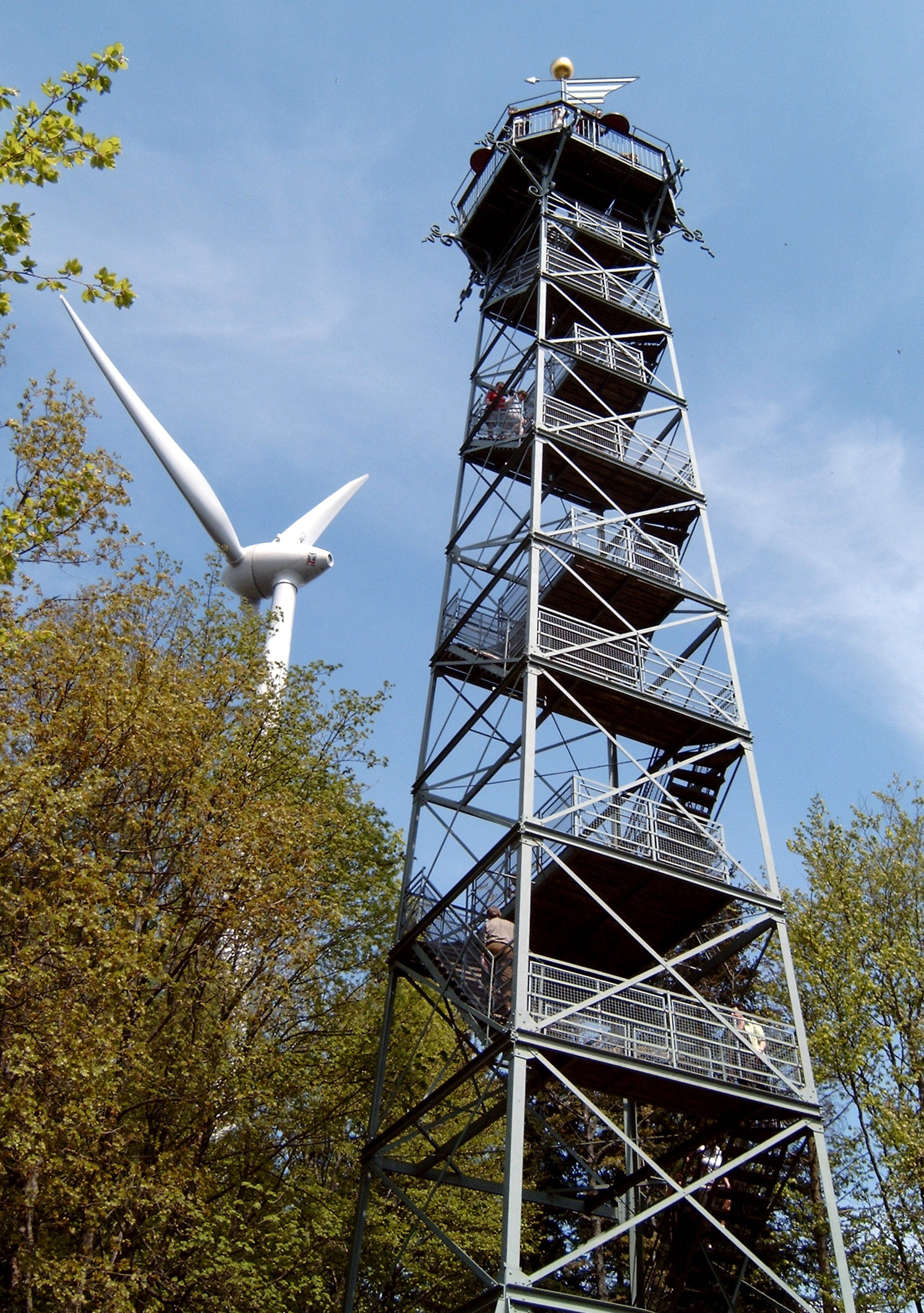 Tower on the Rosskopf